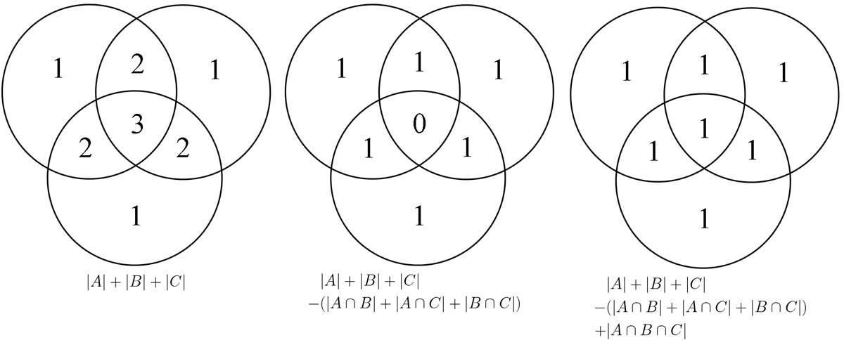 The numbers in the diagram indicate how many times the given formula counts that particular portion of the Venn Diagram. In the first picture, for example, an element in the intersection of A, B, and C will be counted 3 times. Each term of the inclusion-exclusion formula gradually refines these numbers until each portion of the Venn Diagram is counted exactly once.